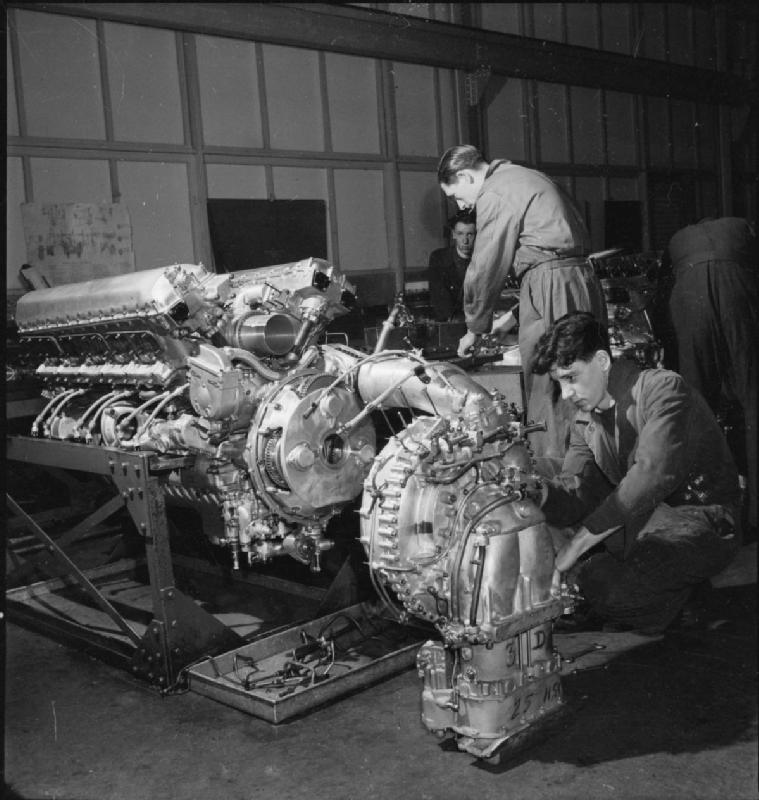 A Merlin Is Made- the Production of Merlin Engines at a Rolls Royce Factory, 1942 A factory worker makes the final adjustments to the Supercharger, which is now ready to be fitted to the engine at this factory, wsomewhere in Britain.